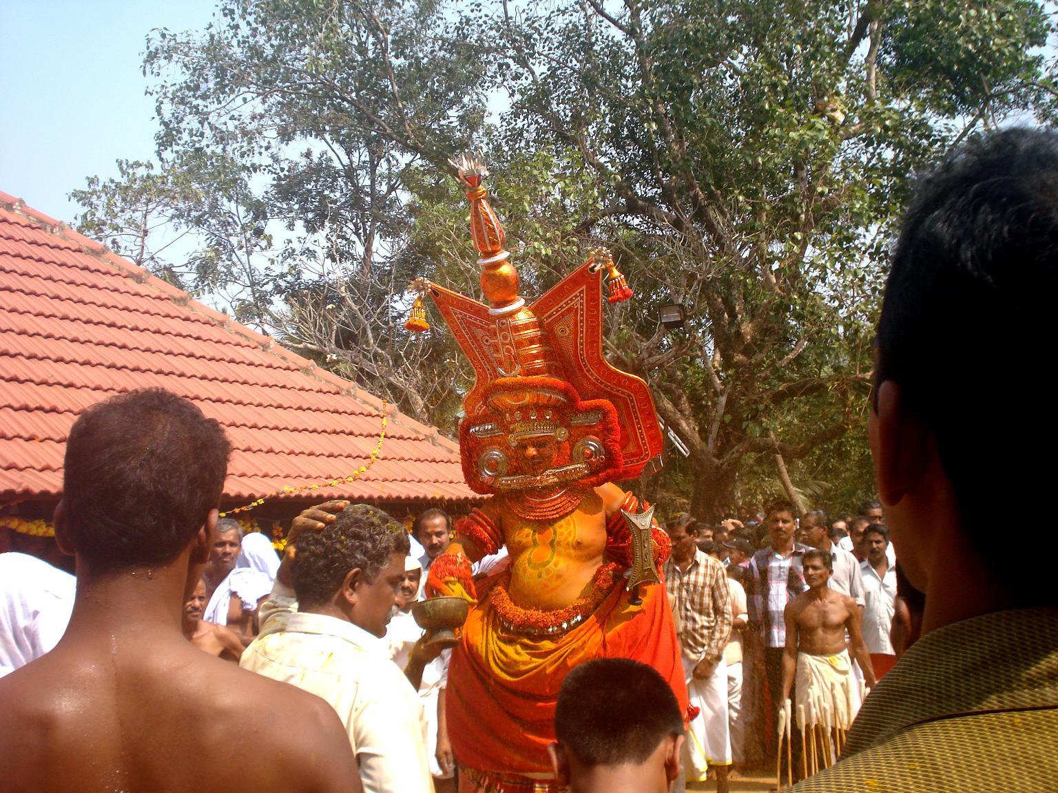 Theyyam is a traditional folk item in North Kerala. Here is a function at 'Kakkunnatth Bhagavathi Temple', Kannur, Anjarakkandy, Kakkotth.